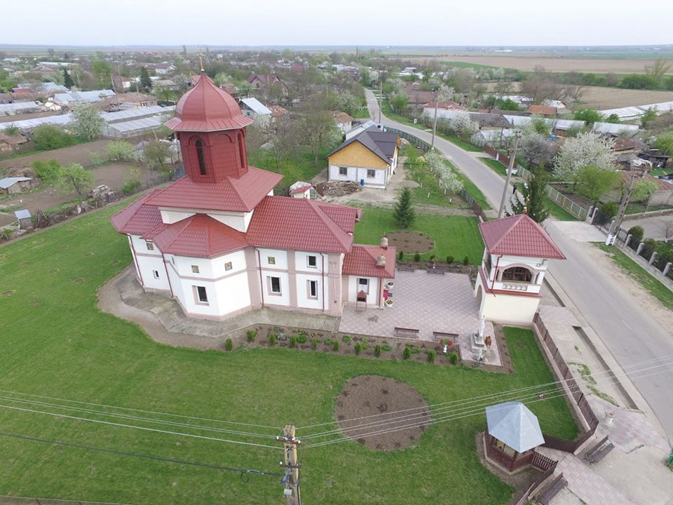 Biserica Ortodoxă Sfântul Dumitru